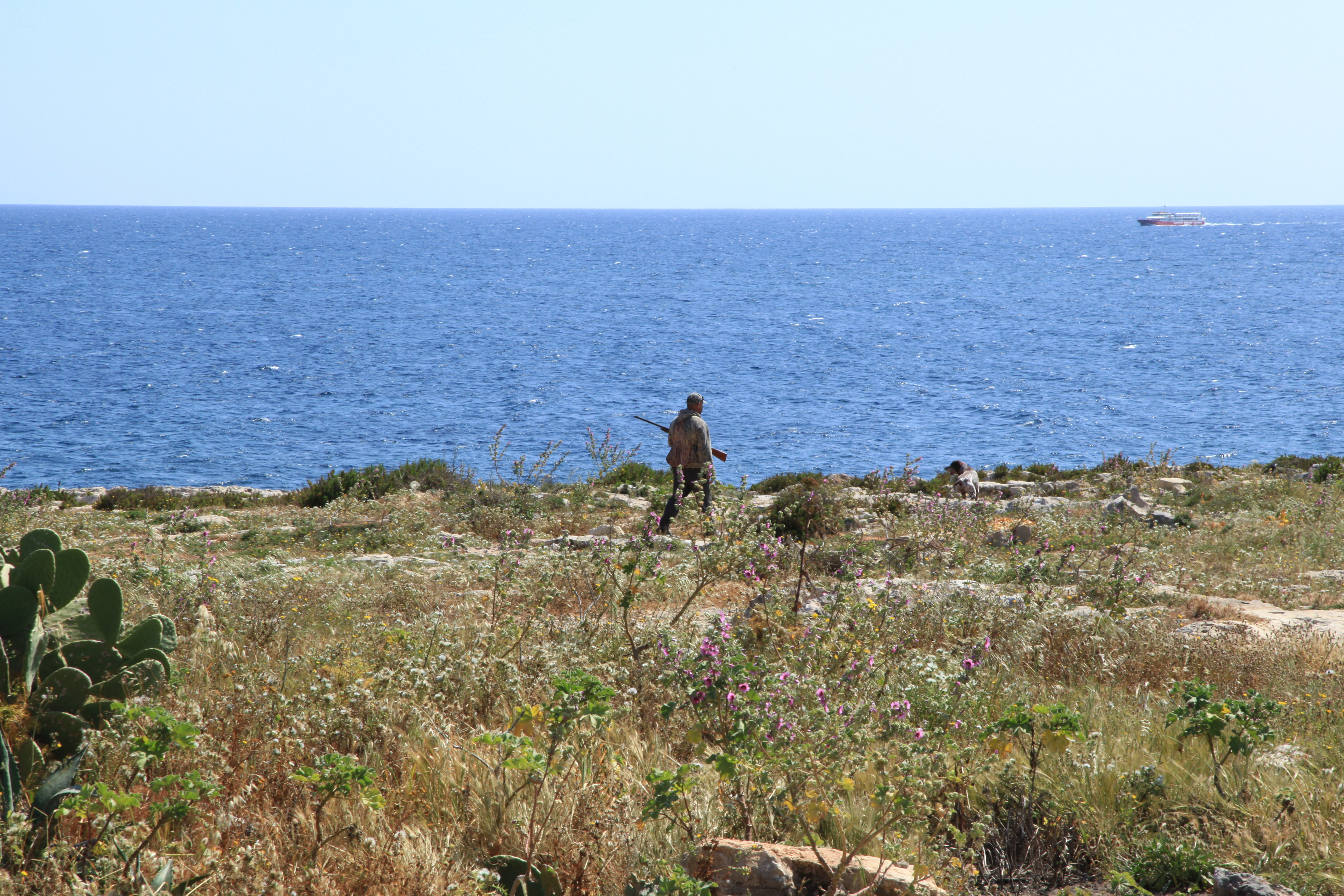 St. Mark's Tower peninsula in Naxxar, Malta